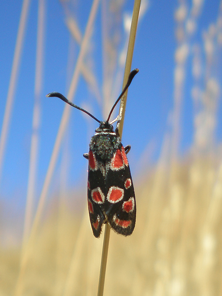 Near Canillo, Andorra. - August 17, 2007